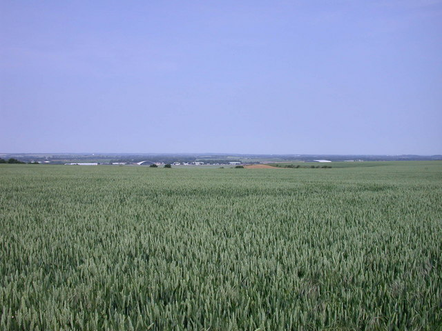 Wheat field with view of Duxford Aerodrome